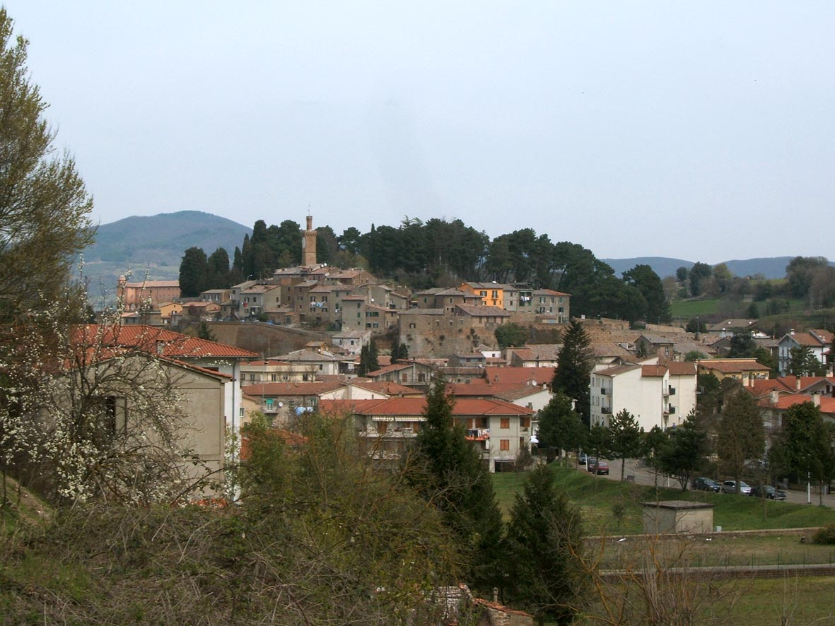 Acquapendente, Provincia di Viterbo